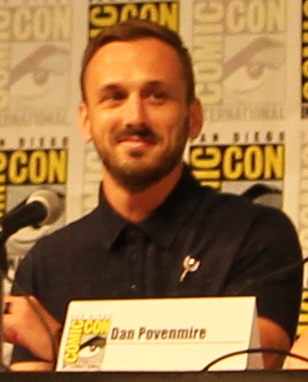 The panel with [from left to right of the table] Star creator Daron Nefcy, Eden Sher (Star), Adam McArthur (Marco), Milo creators Dan Povenmire and Jeff "Swampy" Marsh, and "Weird Al" Yankovic (Milo)